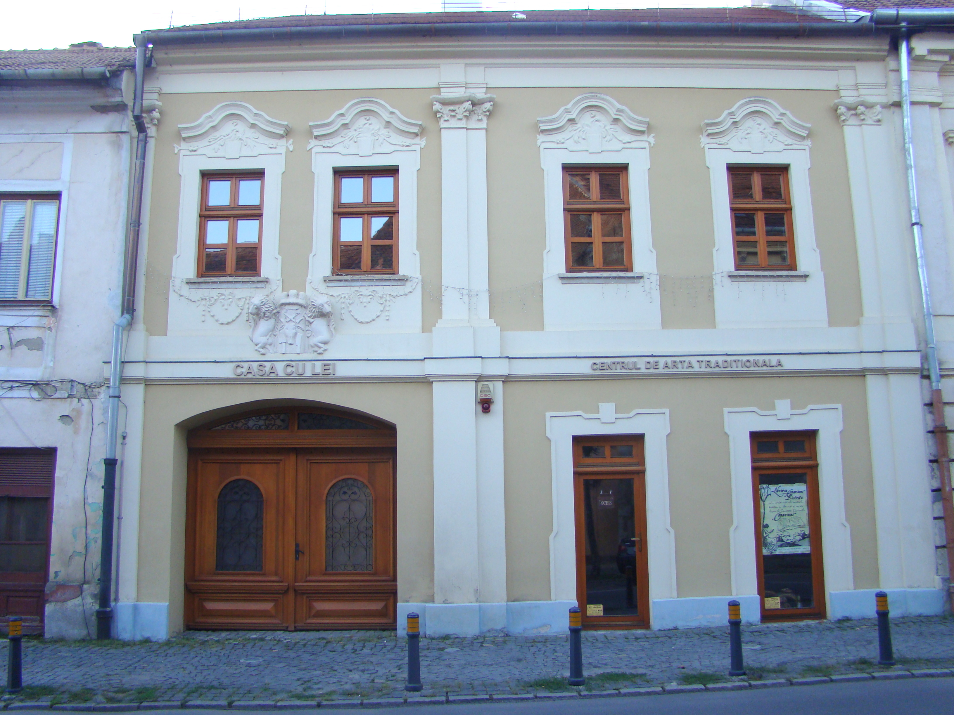 House, historic monument, in Bistrița, Nicolae Titulescu street 8